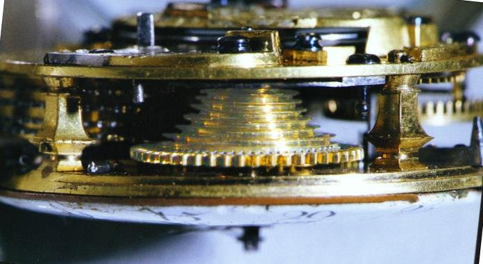 Fusee pocket watch movement, made 1760 by Johann Lindquist of Stockholm. Photo taken by Gervald Frykman. Alteration: enhanced brightness of fusee.